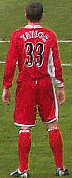 Andrew Taylor. Image cropped from original at flickr.